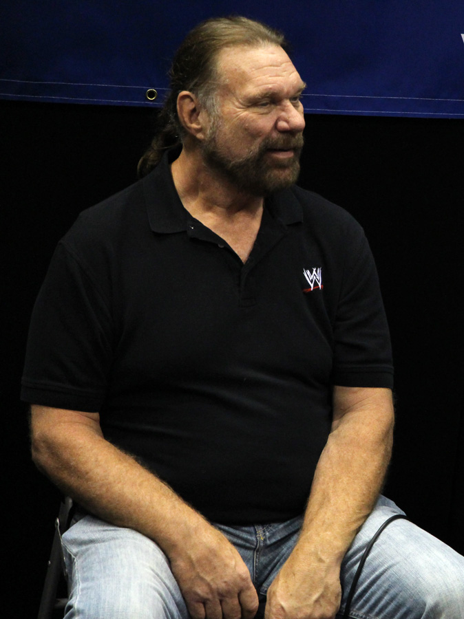 Hacksaw Jim Duggan at Collectormania Glasgow, August 2015 at Braehead Arena